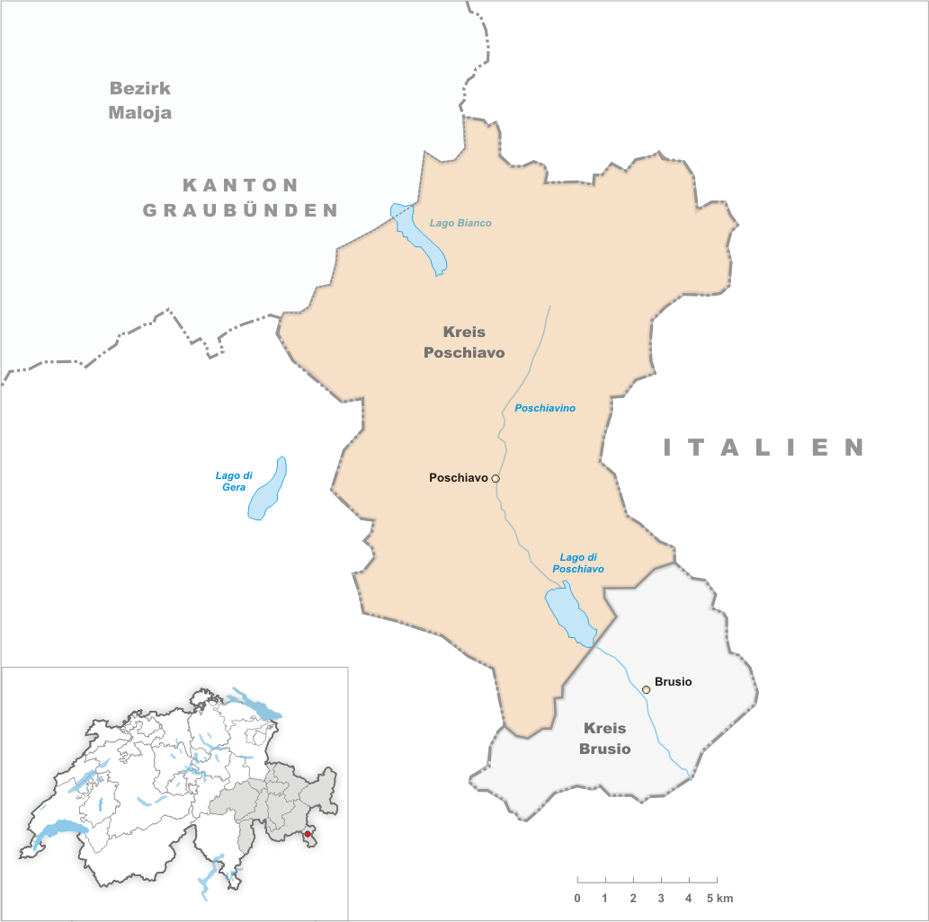 Municipality Poschiavo